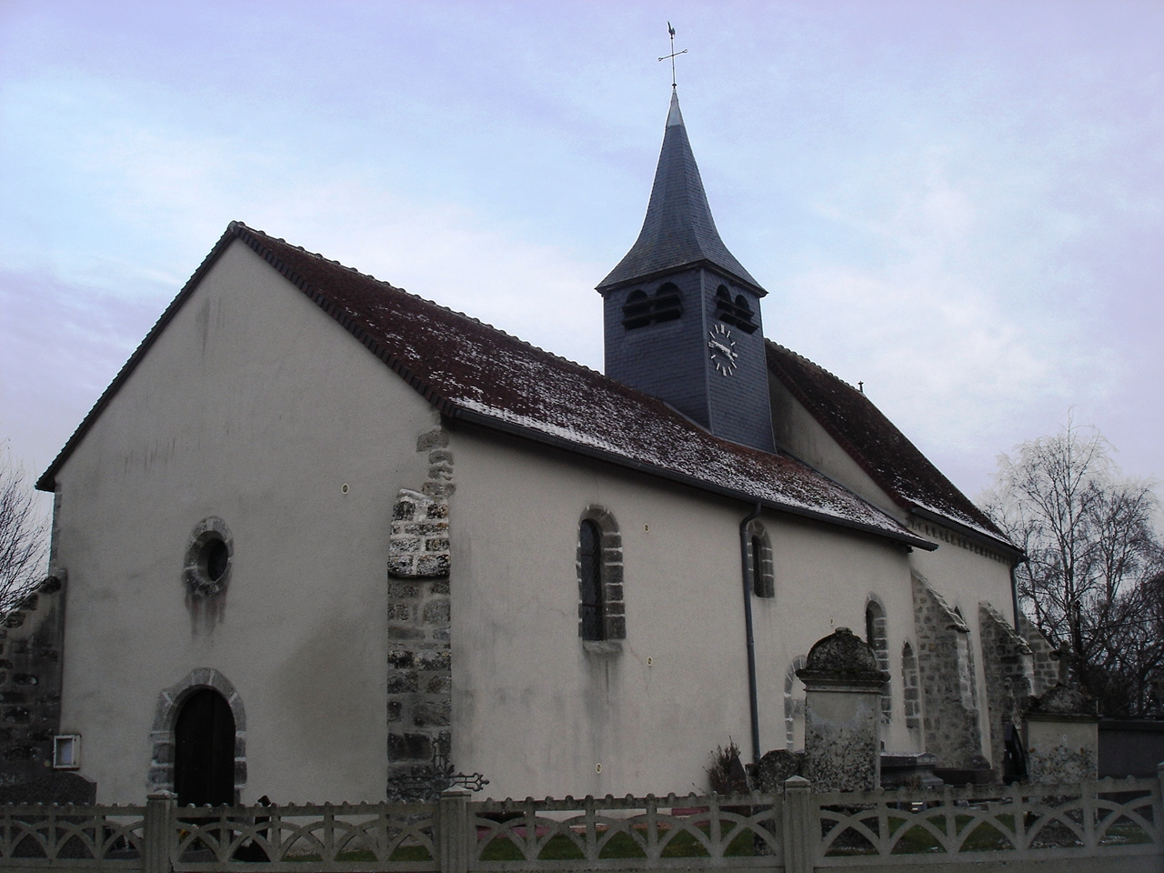 Saint Peter Church of Linthes, Marne, France